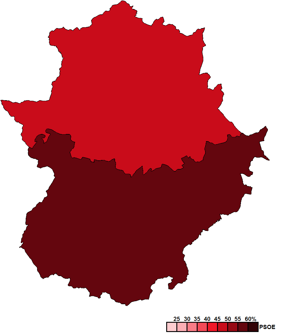 Provincial results for the 1983 Extremaduran regional election.